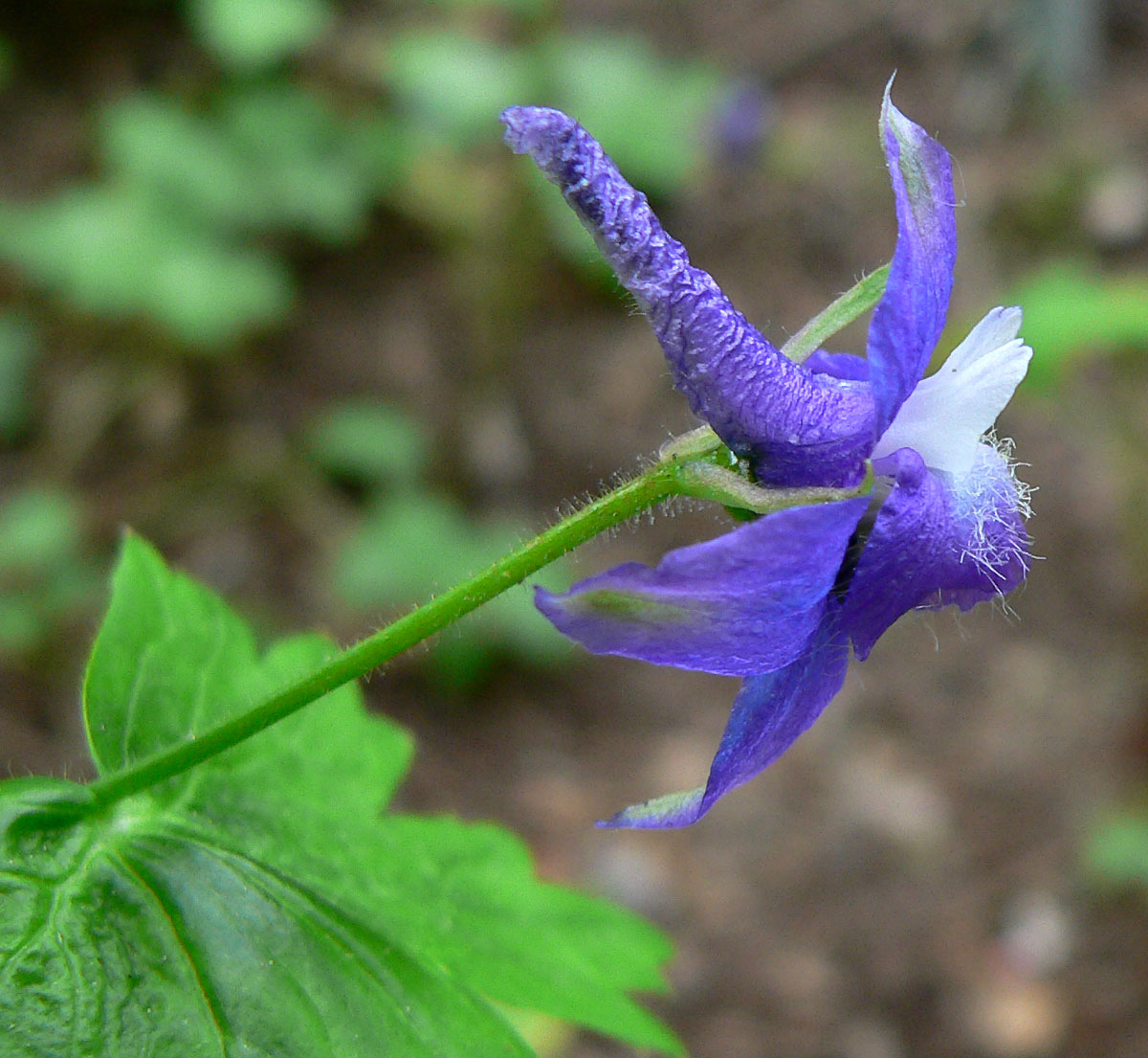 Photo of Delphinium bakeri at the Regional Parks Botanic Garden, Berkeley, California